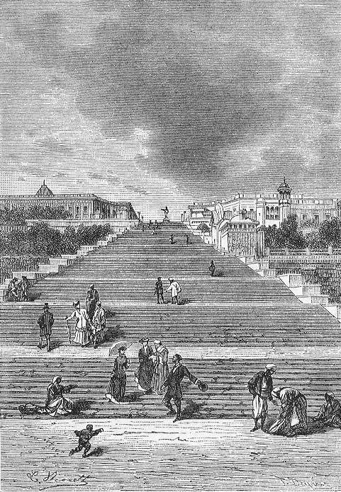 An ilustration from "Kéraban the Inflexible" by Jules Verne paited by Léon Benett.